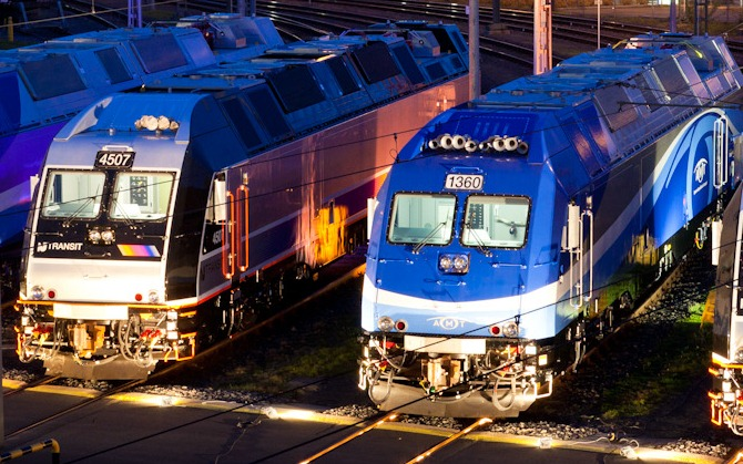 Picture from Kassel, Germany of both NJT and AMT dual mode locomotives